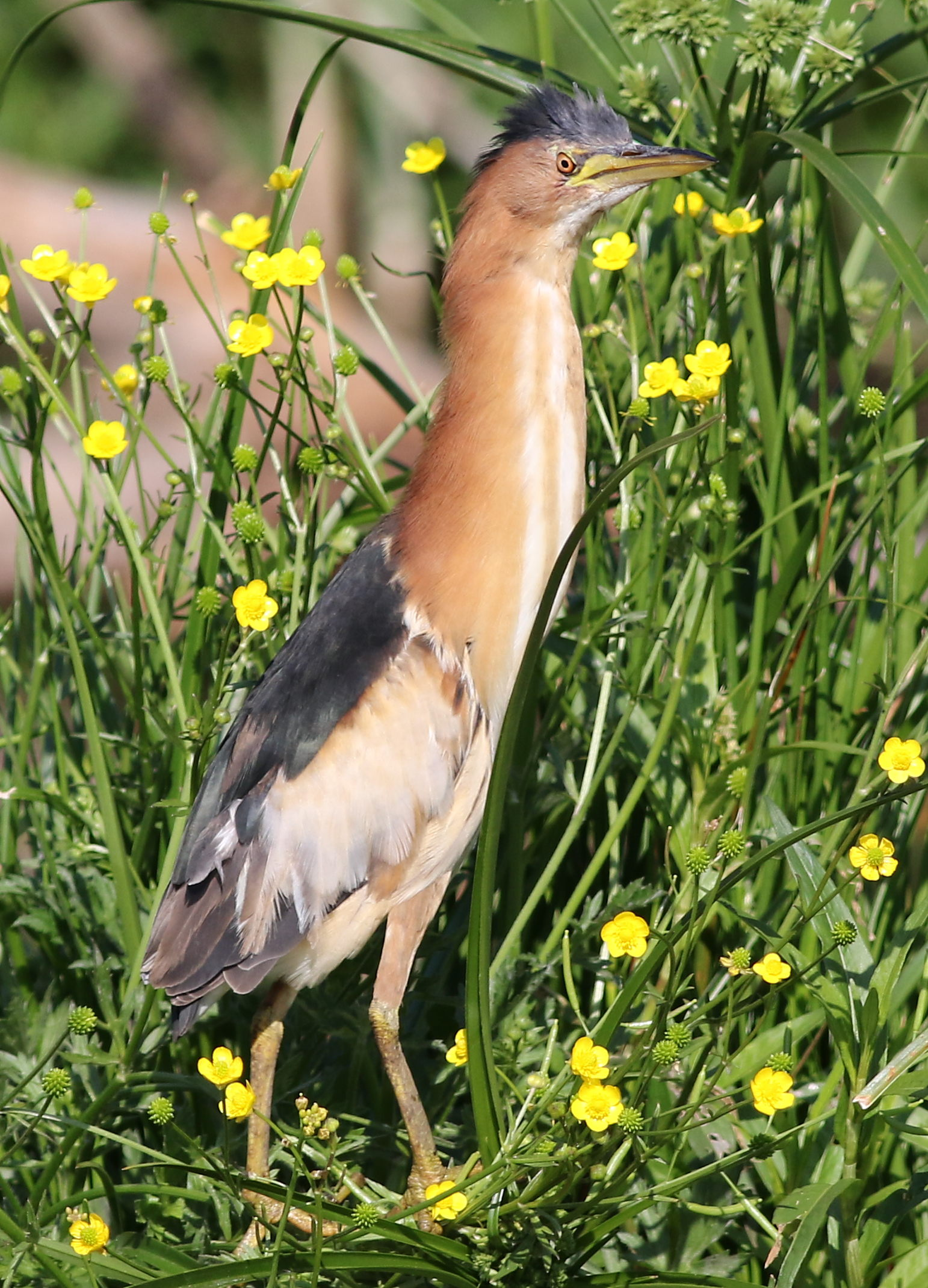 Little bittern, Ixobrychus minutus - - at Rietvlei Nature Reserve, Gauteng, South Africa